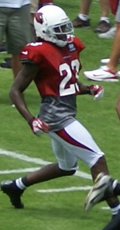 Jamell Fleming in 2012 training camp